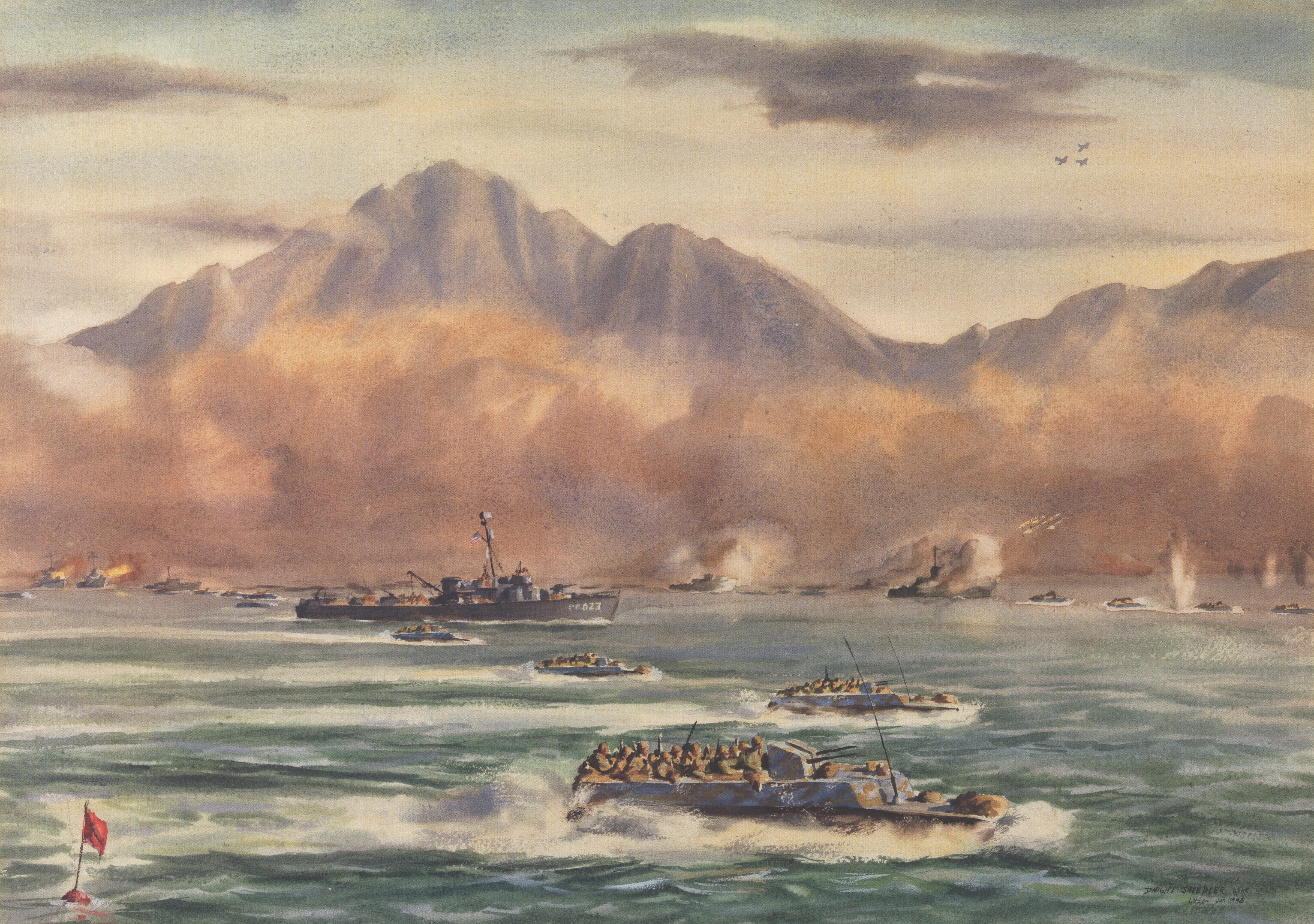 This U.S. Navy poster shows the San Fabian Attack Force at the Lingayen Gulf landing on 9 January 1945, including a depiction of submarine chaser USS PC-623 acting as a control vessel at the White Beach landing area. Artwork signed "Dwight Shepler USNR Luzon January 1945."